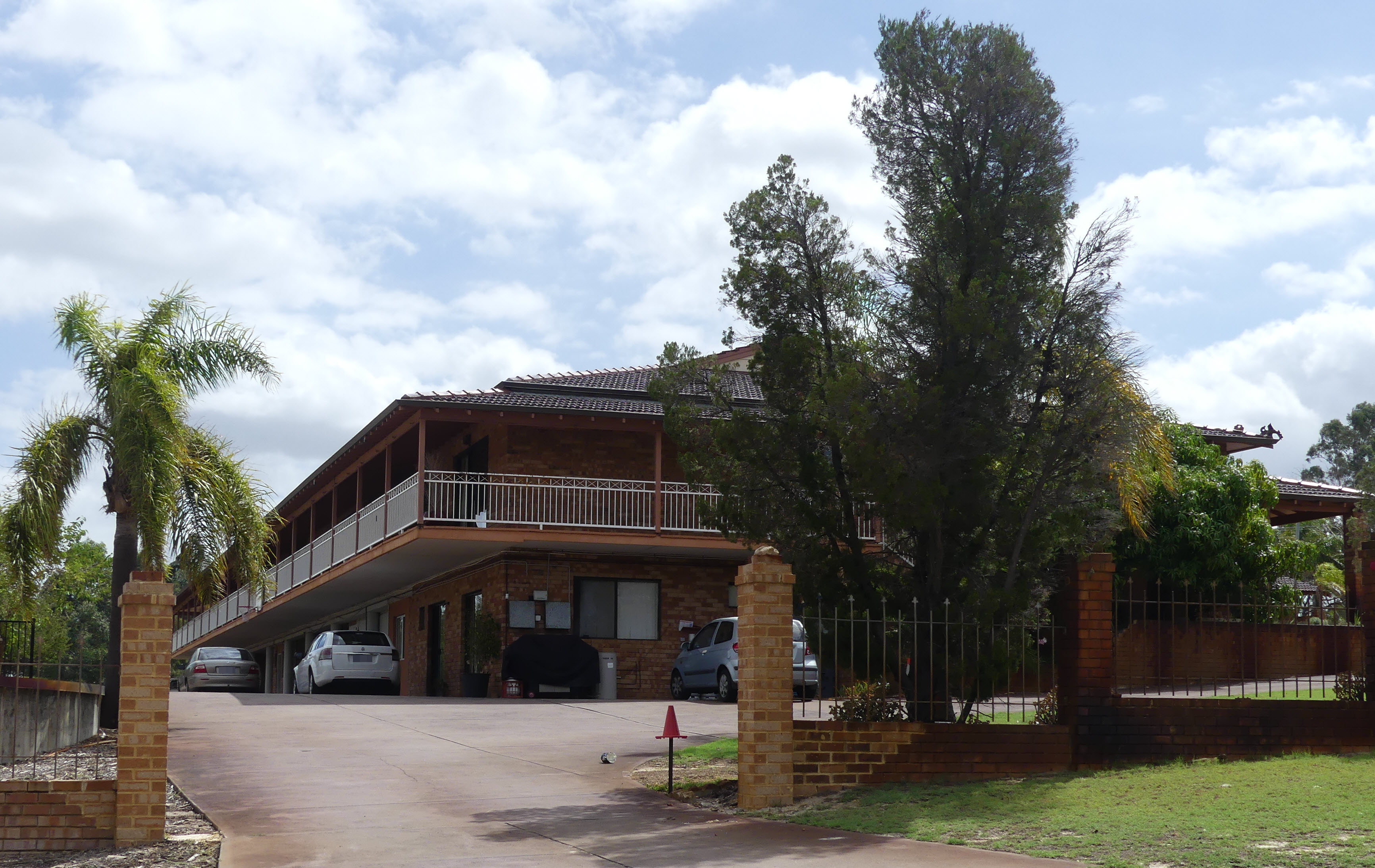 Side view of Shalom House Perth Western Australia